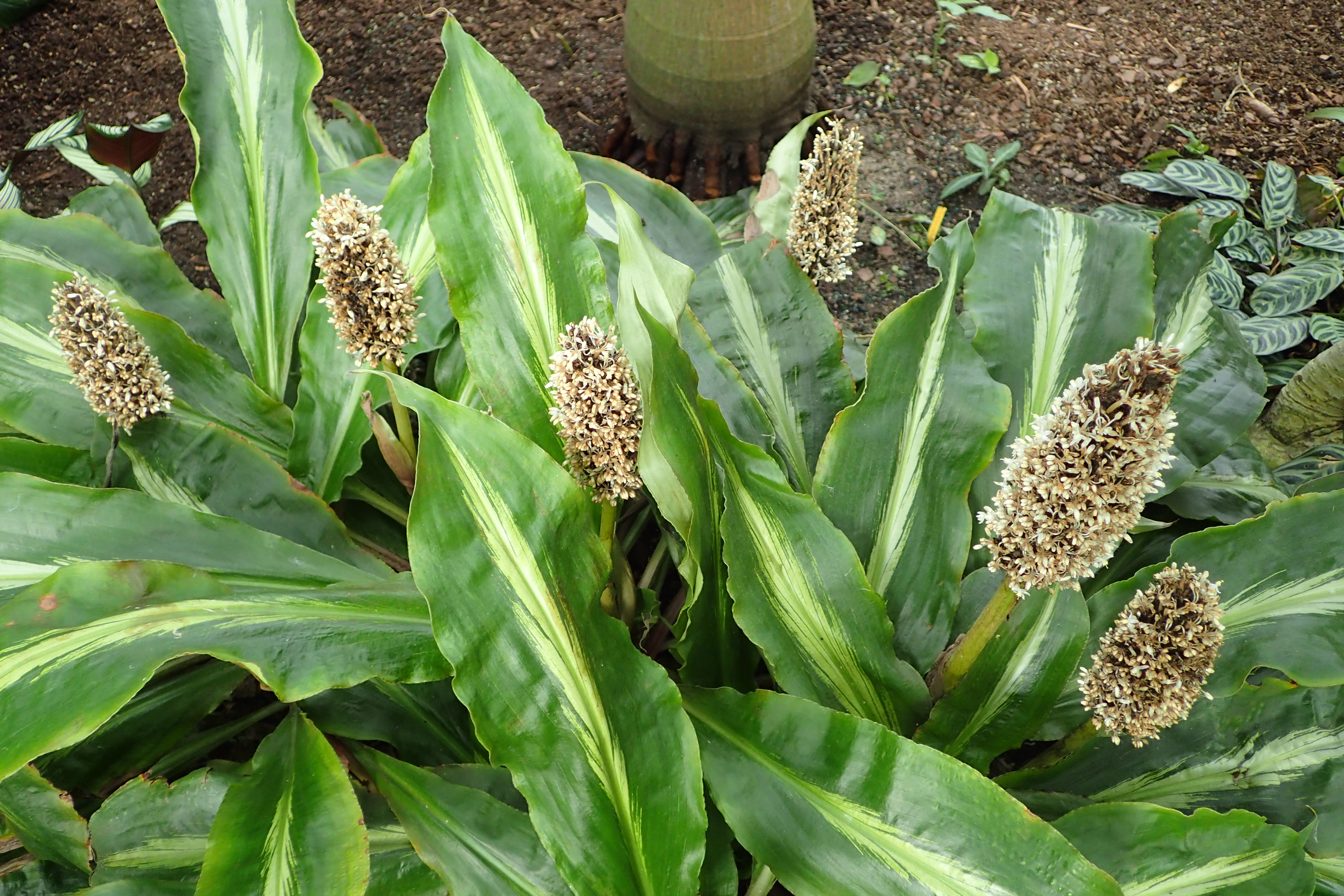 Palisota pynaertii 'Elizabethae' in Lincoln Park Conservatory, Chicago